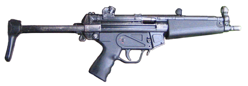 An MP5A3, belonging to Indonesia's Marinir (Marine Corps).